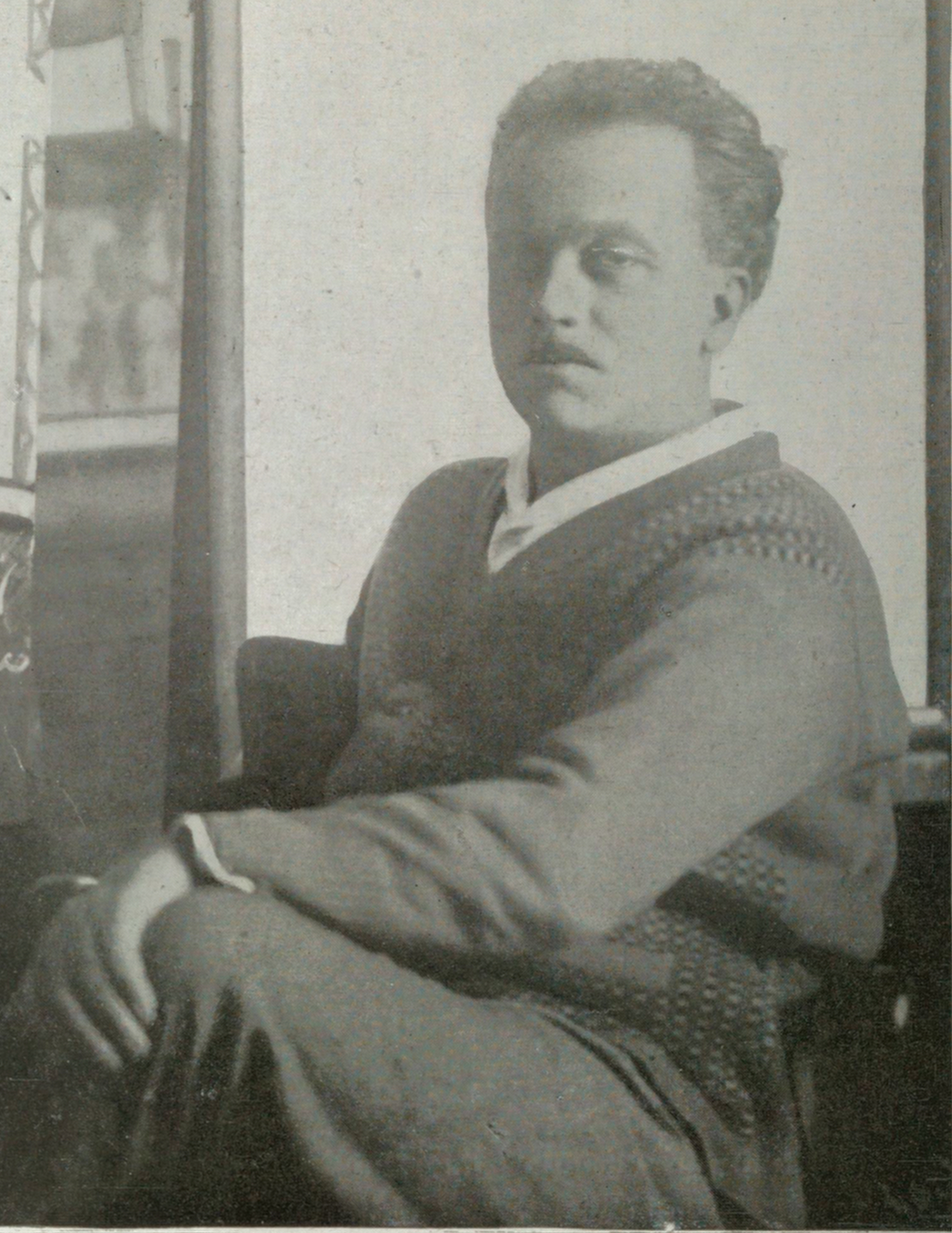 Portrait photograph of Raoul Dufy, before 1927